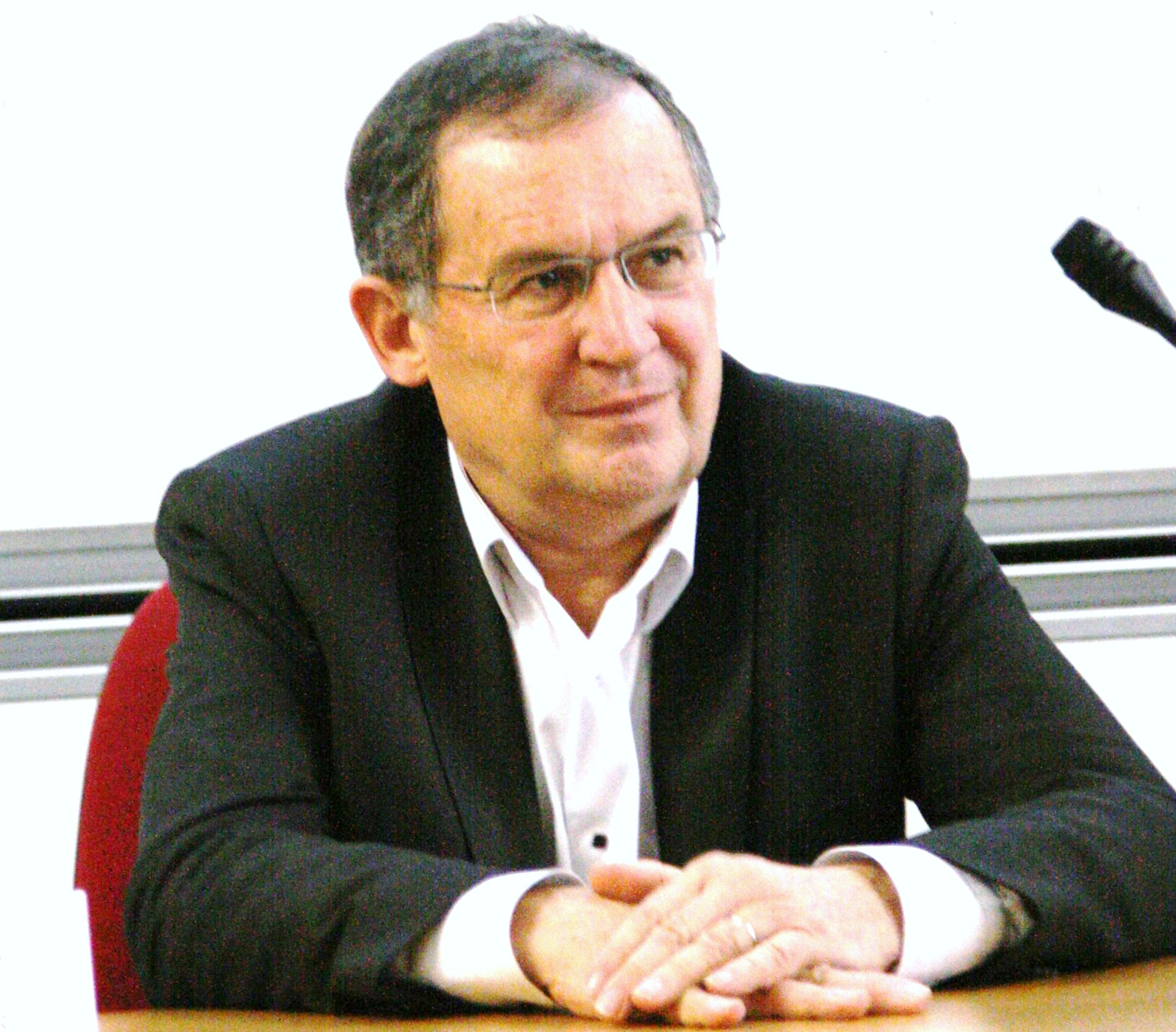 Jacques Marseille, professor in economics and social history